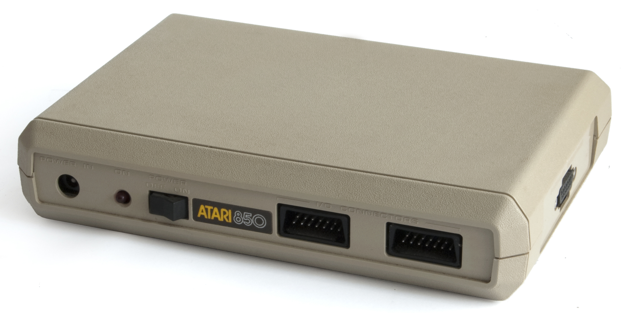 Atari 850 expansion system for the Atari 400 and 800 8-bit computers.